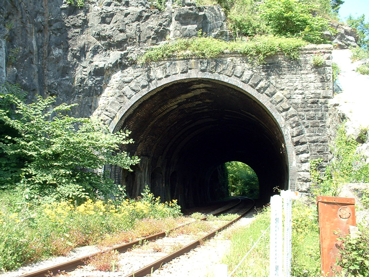 Portishead Railway tunnel in the Avon Gorge. Bristol / North Somerset, England.